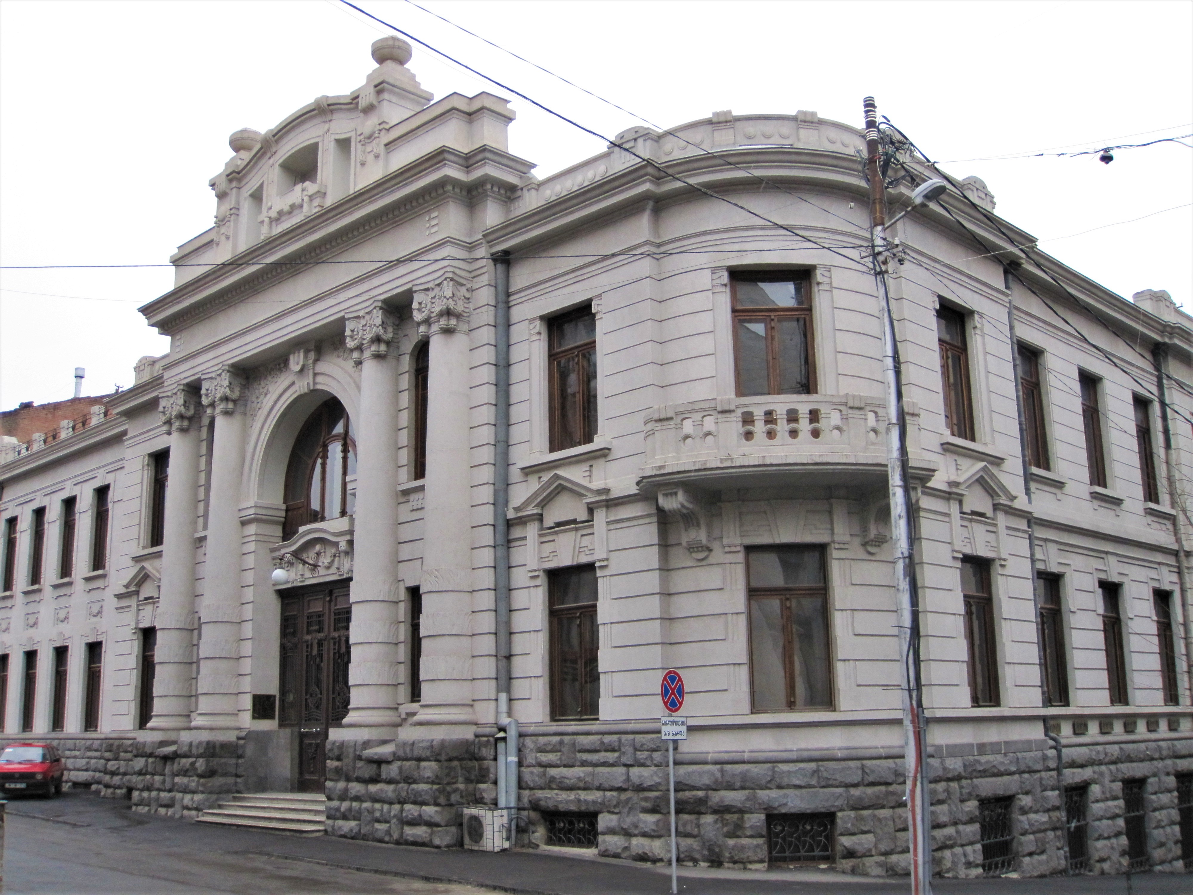 Building III, National Parliamentary Library of Georgia in Gudiashvili St., Tbilisi. The building is built in 1910